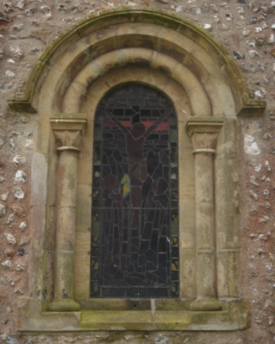 East window at the Parish Church of the Transfiguration, Pyecombe, West Sussex, England